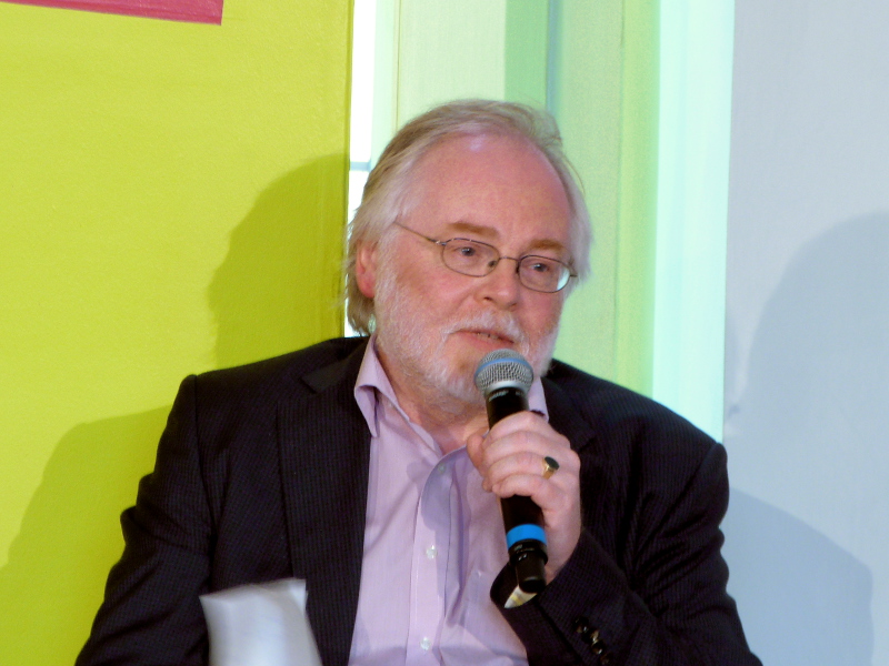 Bernhard Echte (* 1958), a german literary scientist and publisher, at the Erlanger Poetenfest 2013.